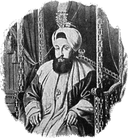 Selim III (1761-1808)